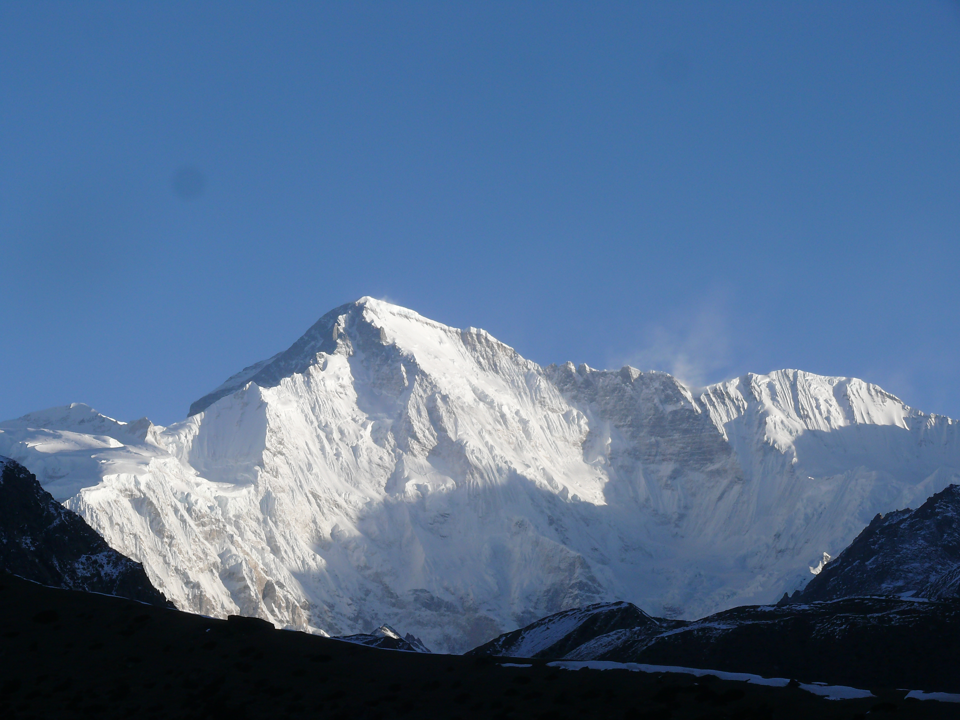 Cho Oyu from Machermo